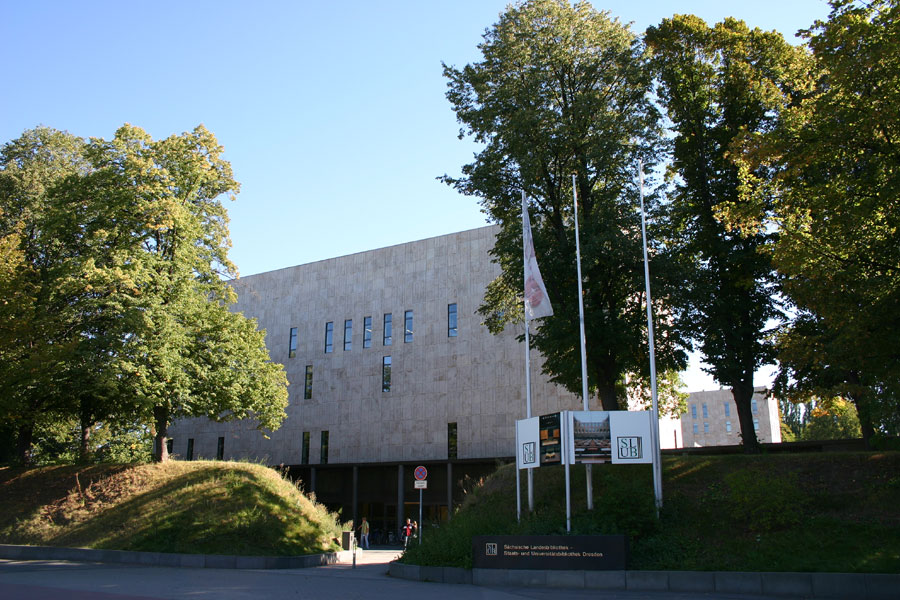 Main entrance of the SLUB Dresden library